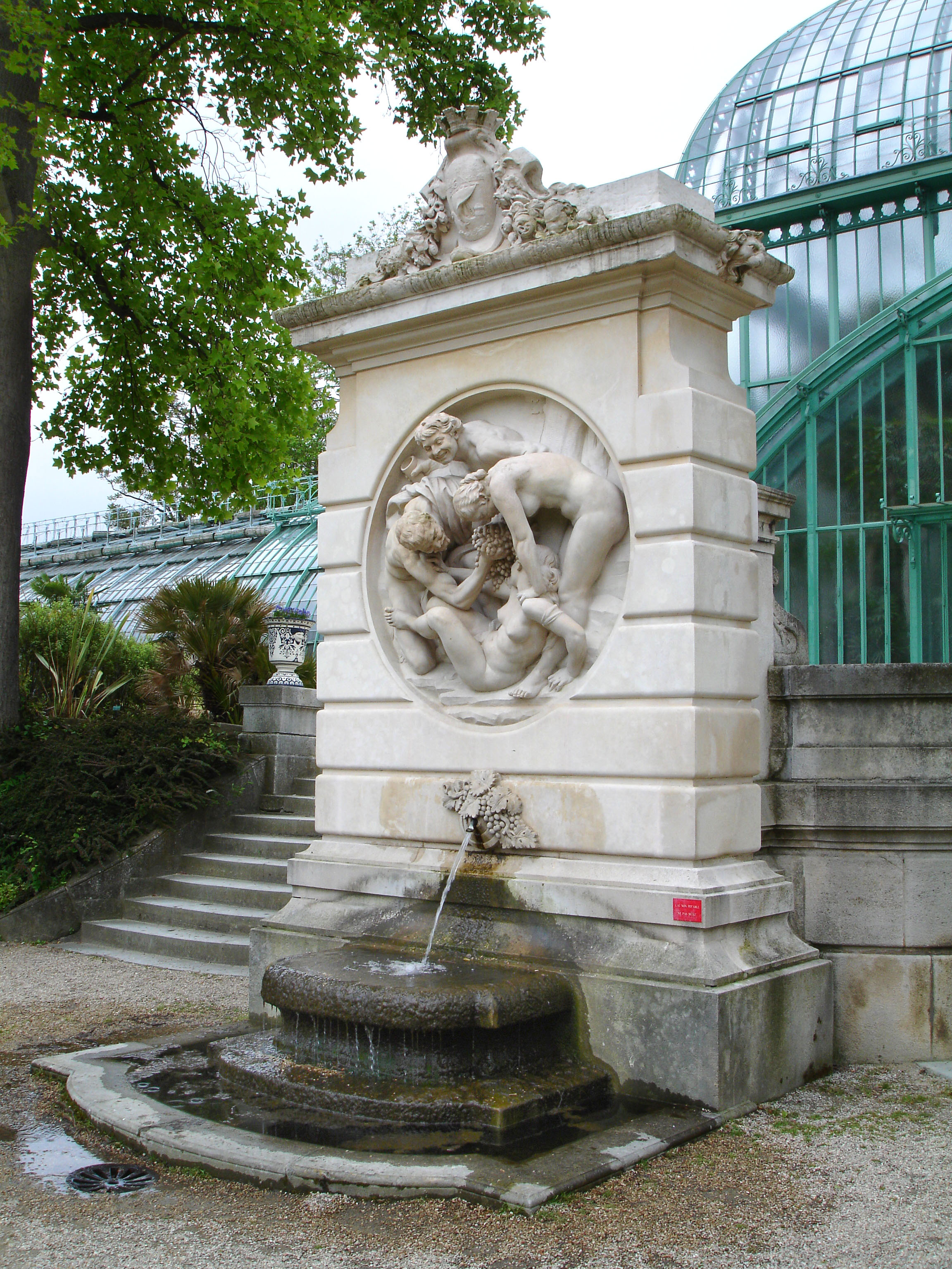 Fountain of the Greenhouses Garden of Auteuil in Paris, with a high relief called Bacchanale by Jules Dalou. The plaster was exhibited at the Salon of 1891. Tercé stone, circa 1894 - 1898. Architect : Jean Camille Formigé.